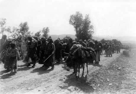 Armenian deportations in Erzurum. Pictures taken by Viktor Pietschmann